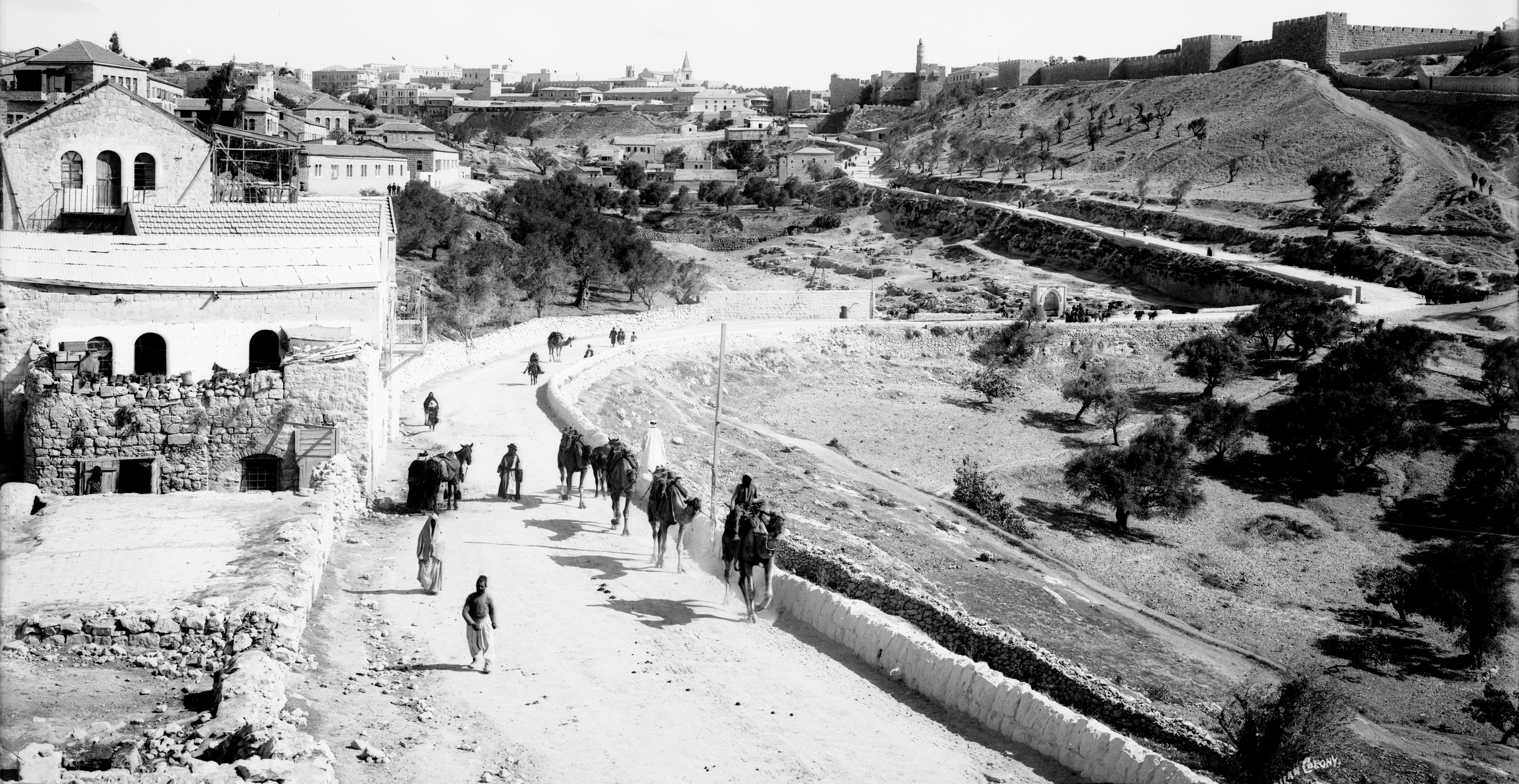 Jerusalem (El-Kouds). First view of Jerusalem from the south / American Colony, Jerusalem.